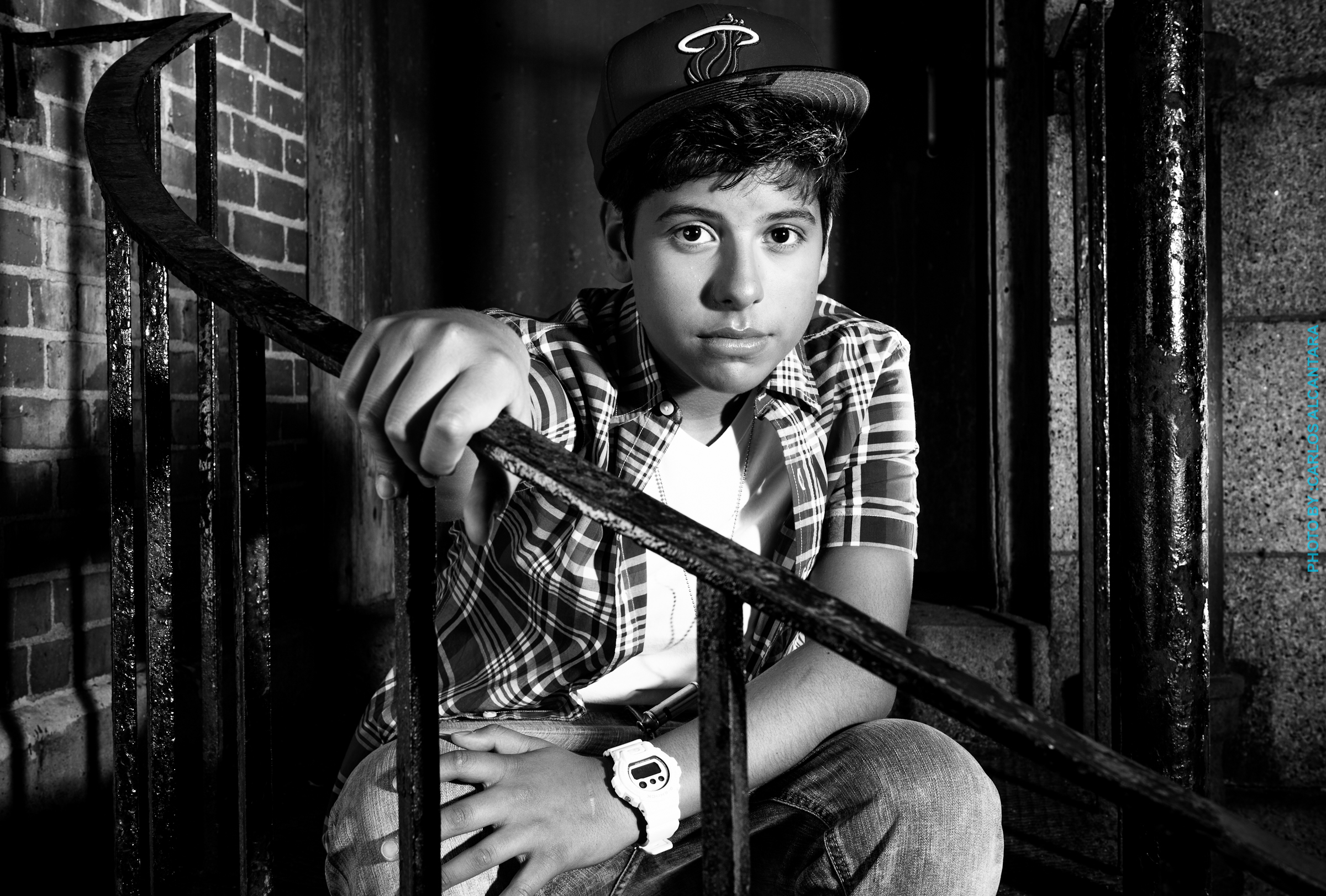 Boston photo shoot.